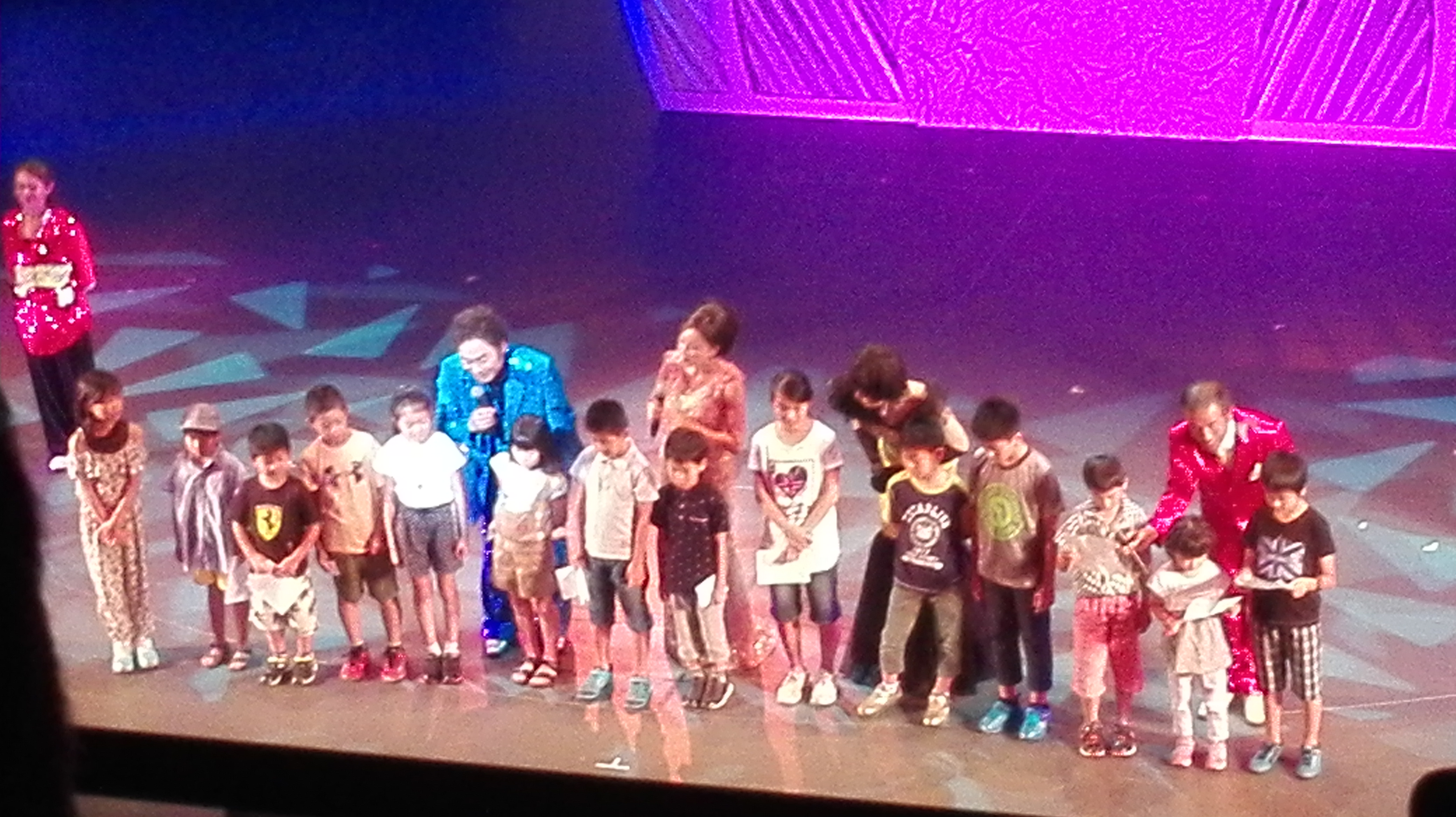 Croquette 2018-09